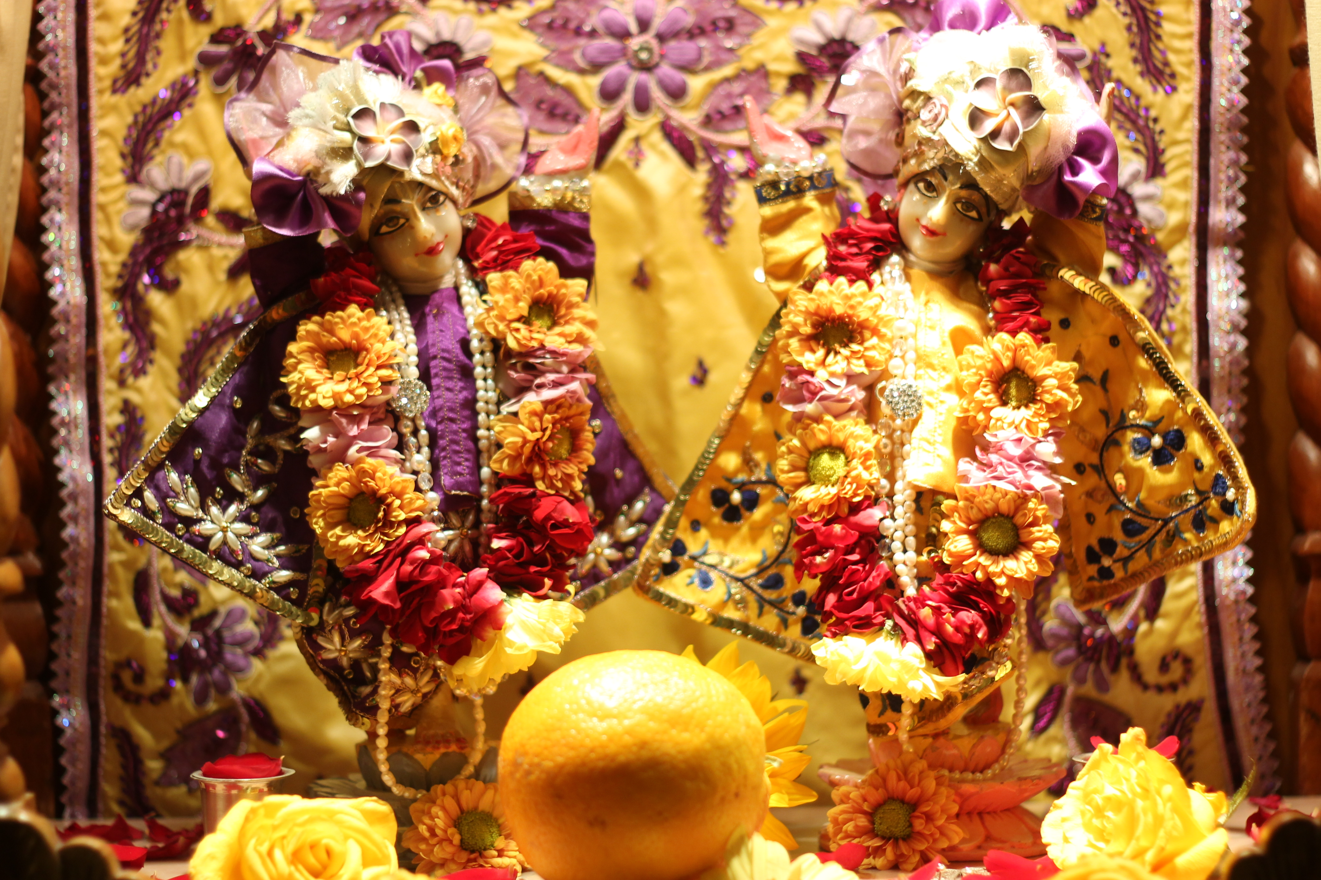 Altar with the deities of Chaitanya and Nityananda at ISKCON temple in Lisbon, Portugal